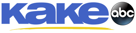 Logo for KAKEland News, out of Wichita, Kansas.